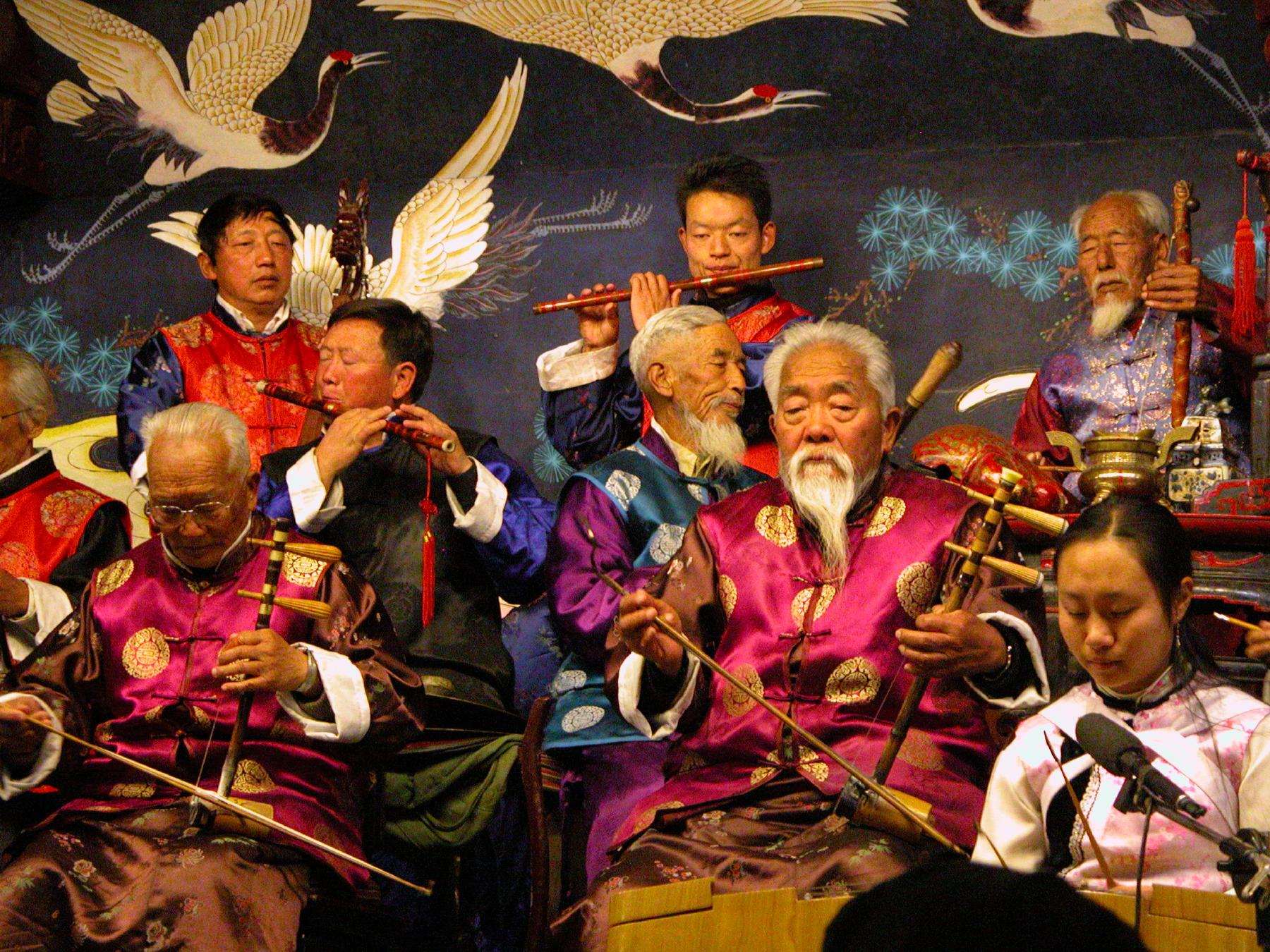 Traditional Chinese music played by aging Naxi musicians. Photo taken in Lijiang, Yunnan province, China.Naxi Musicians I